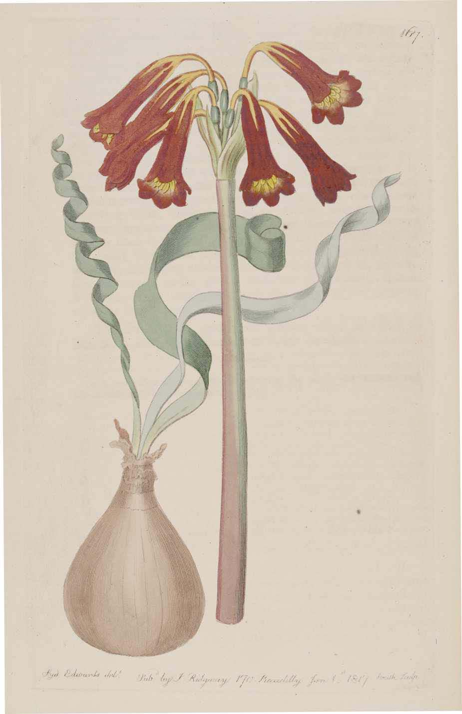 Cyrtanthus spiralis